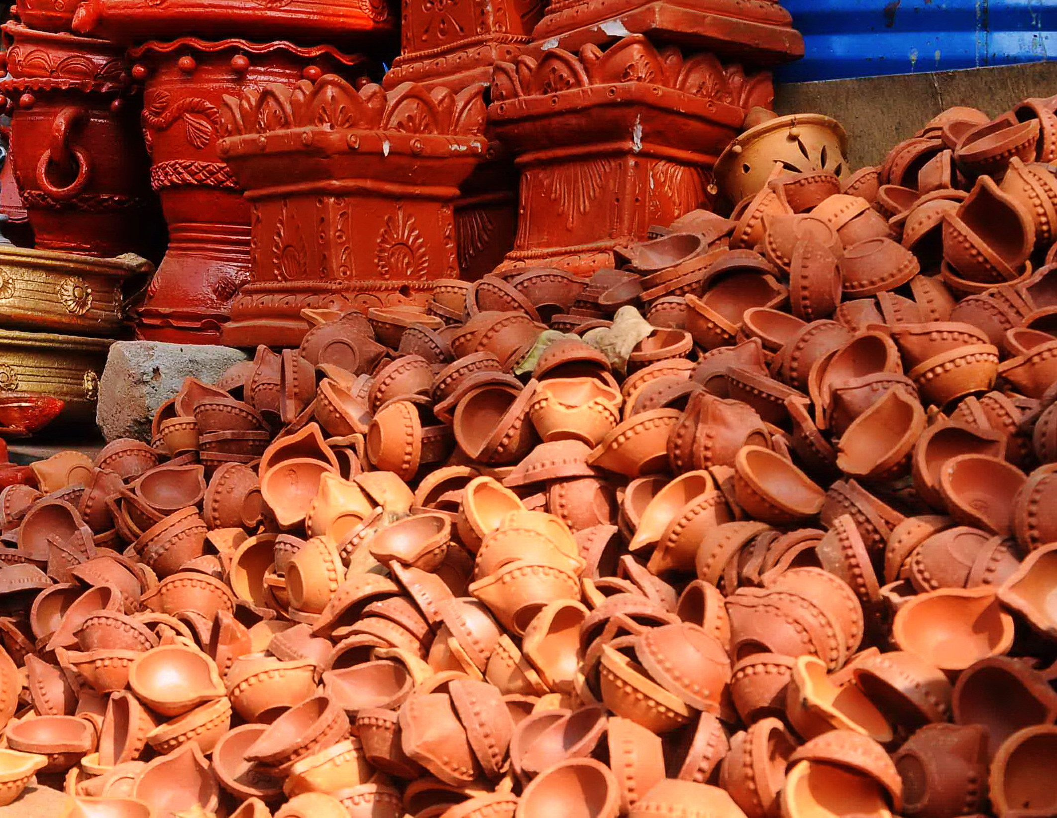 Earthenware in Madurai, Tamil Nadu.